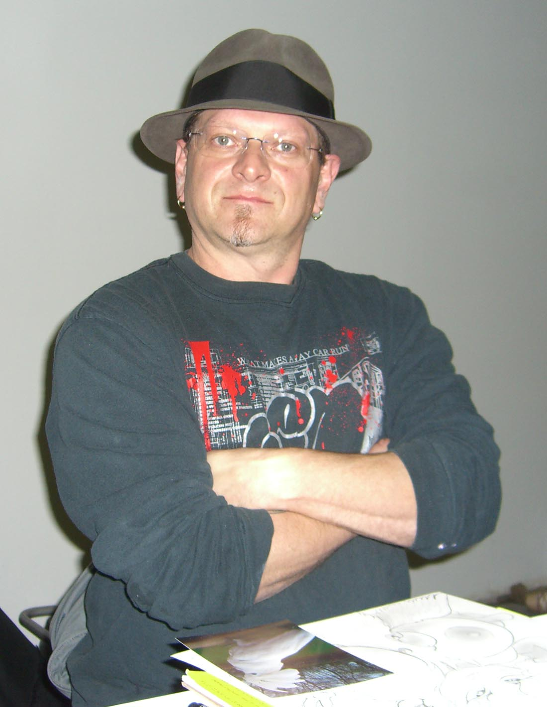 Comic book creator Mark Bode at the Big Apple Convention in Manhattan. Photographed by Luigi Novi. This photo may only be used if the photographer is properly credited. (See Licensing information below.)